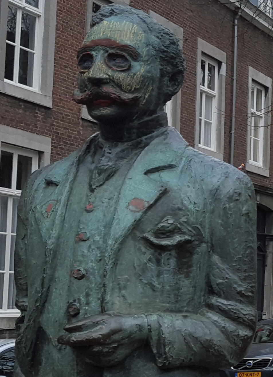 Grote Looiersstraat, Maastricht, Netherlands